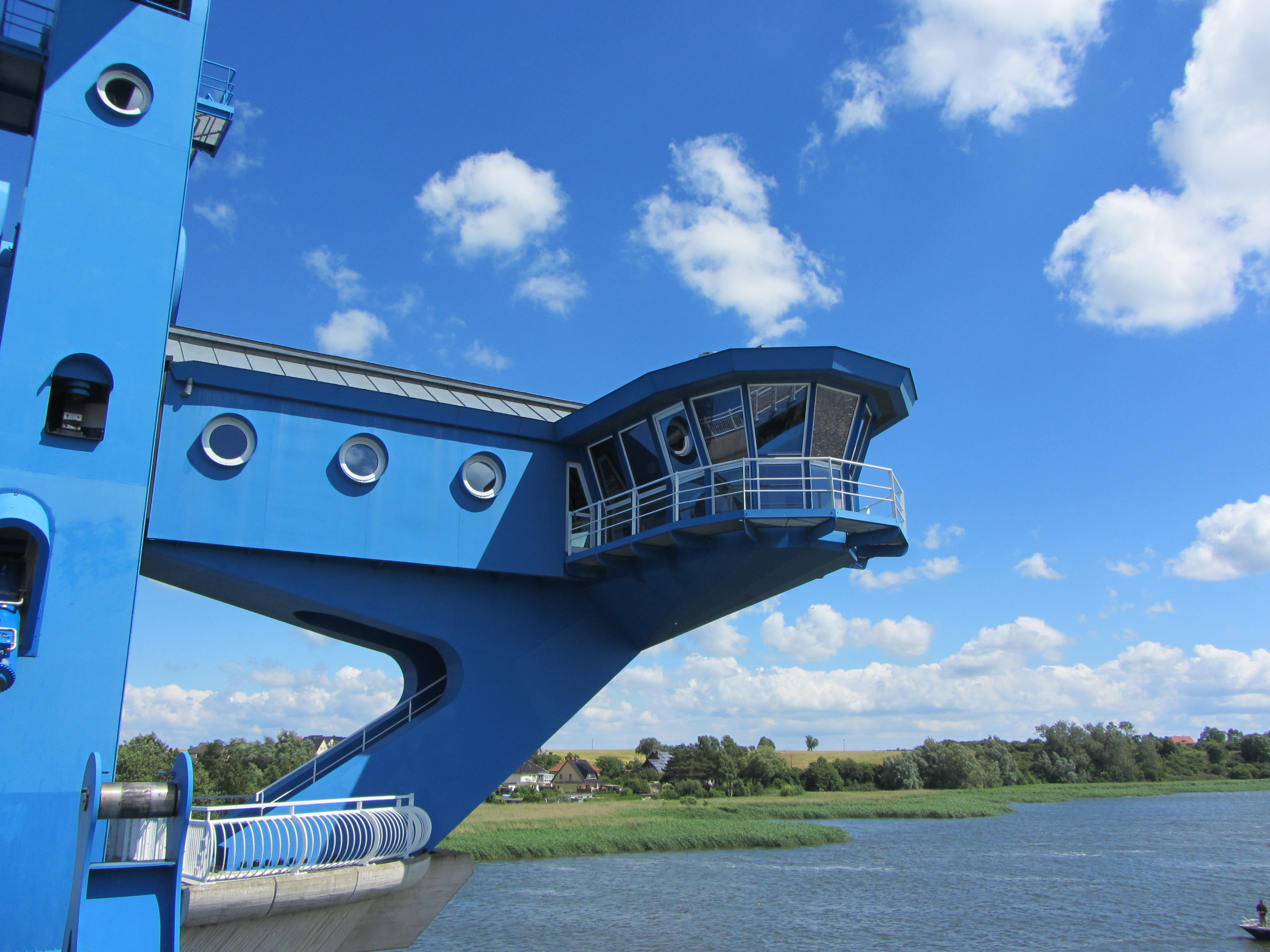 Peene bridge in Wolgast, district Vorpommern-Greifswald, Mecklenburg-Vorpommern, Germany